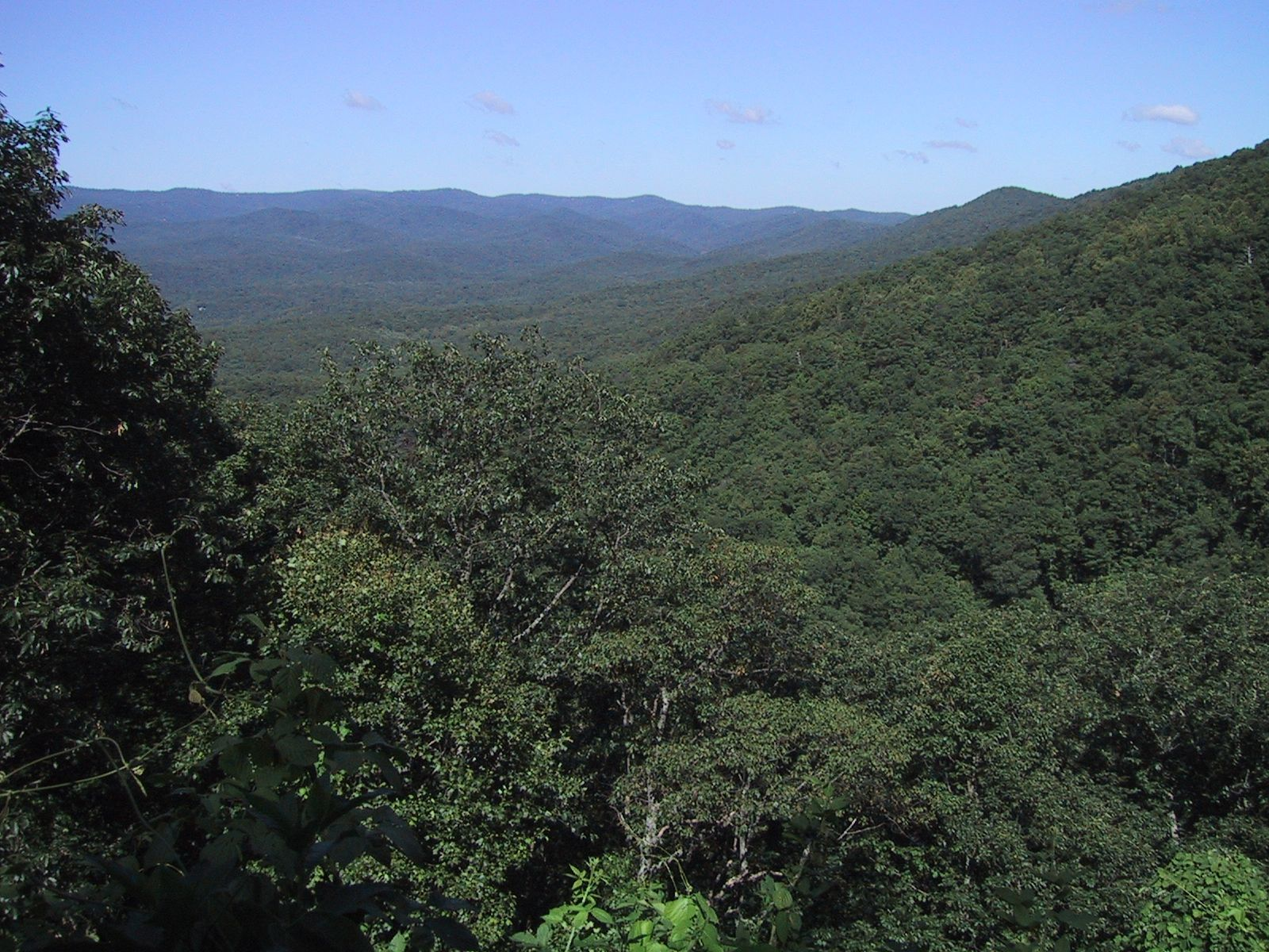 Image title: Deep rain forest Image from Public domain images website